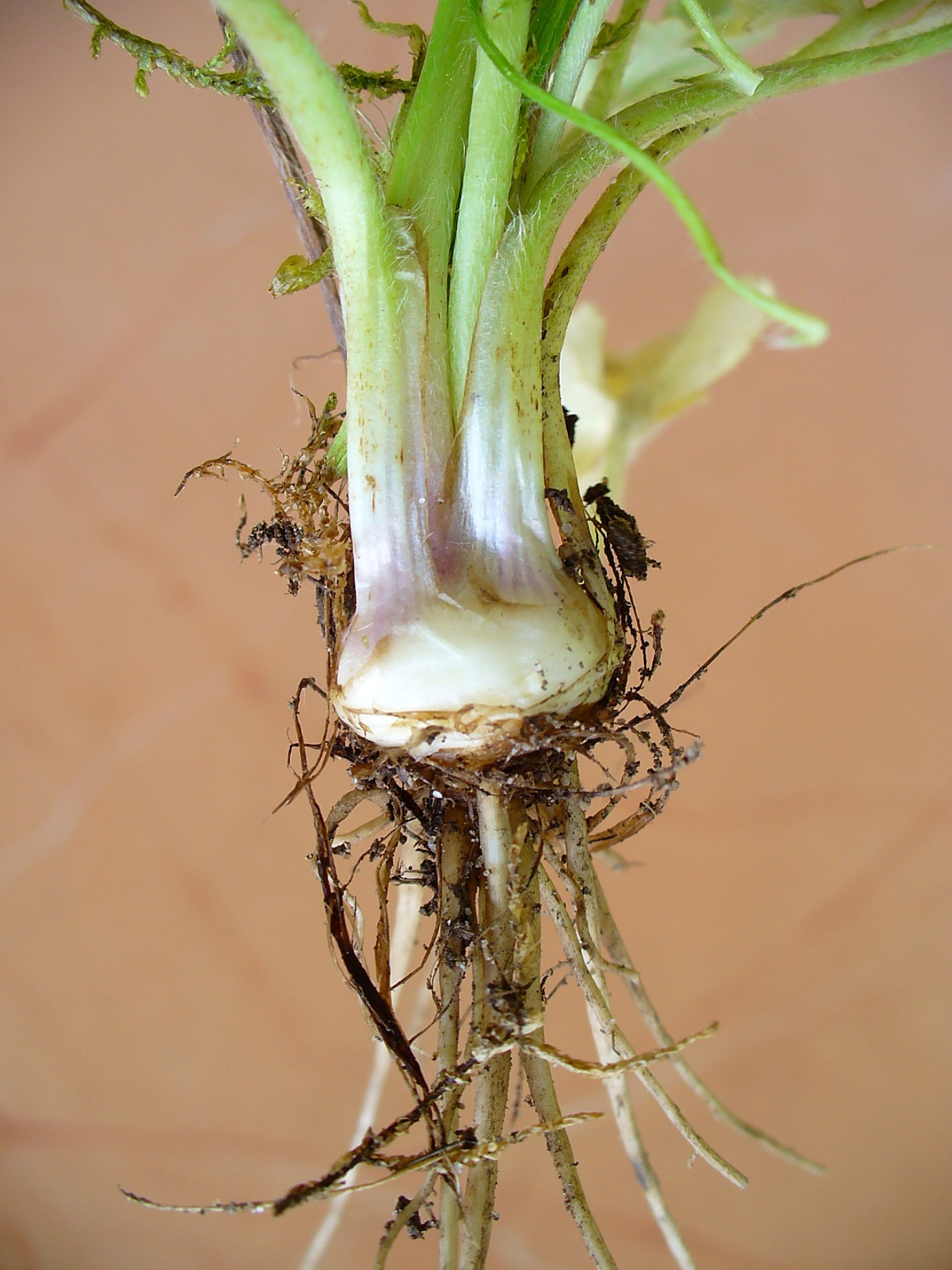 Ranunculus bulbosus, Ranunculaceae, St Anthony's Turnip, Bulbous Buttercup, corm. Karlsruhe, Germany.